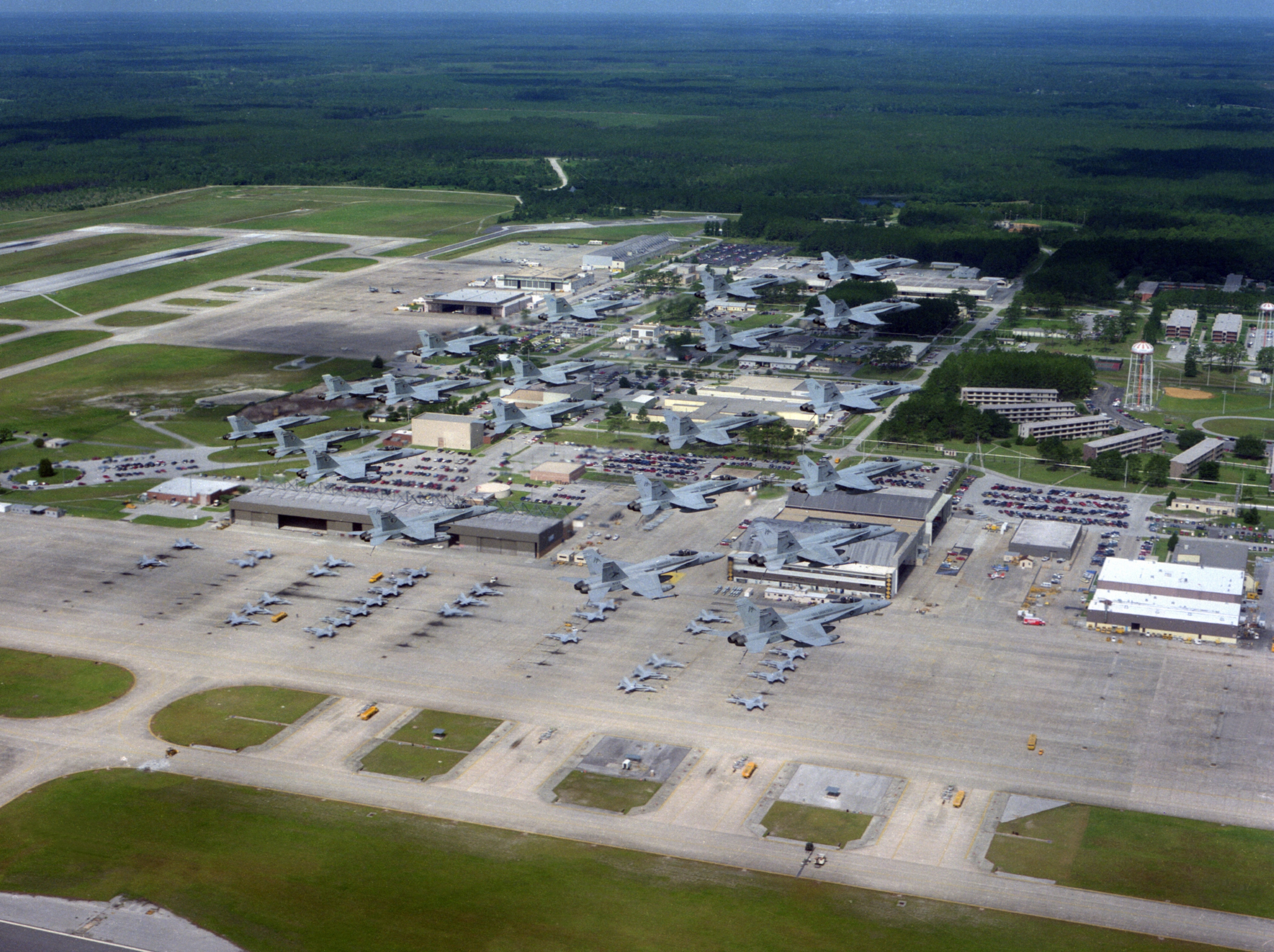 U.S. Navy Captain M.H. Kennedy, commanding officer of the aircraft carrier USS Saratoga (CV-60) leads a flight of McDonnell Douglas F/A-18C Hornet aircraft to Naval Air Station Cecil Field. The 21 aircraft from Cecil Field's own Strike Fighter Squadrons VFA-81 and VFA-83 were returning home from Saratoga´s last deployment to the Mediterranean Sea before decommissioning.